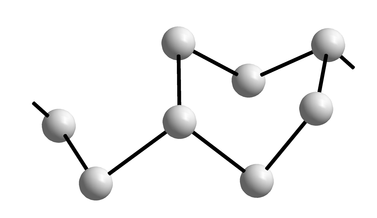 Octatellurium dication in Te8[U2Br10]